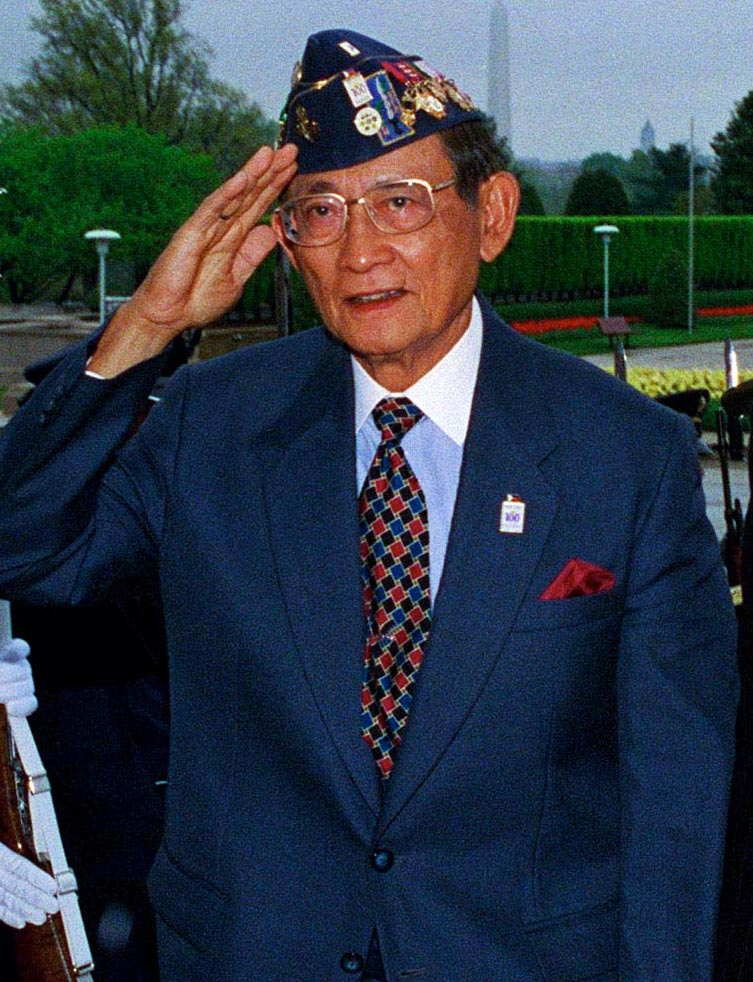 President Ramos at The Pentagon.